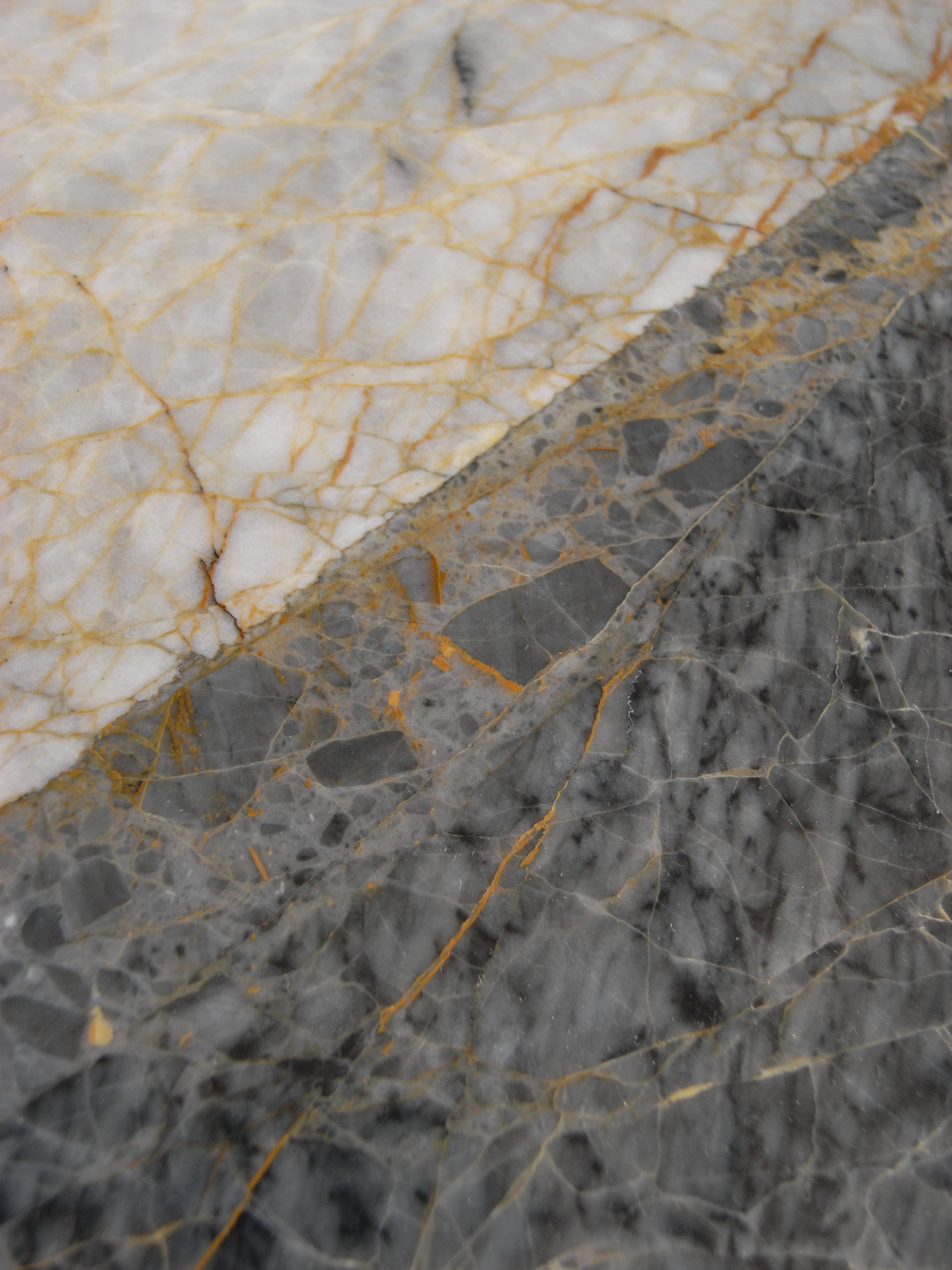 cataclasis of marble (Slovakia)